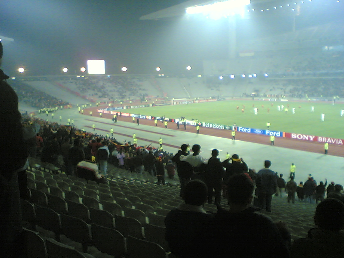 Champions League game played in Ataturk Olypmic Stadium, Istanbul. 5 december 2006. Photo taken 10 minutes before the final whistle.